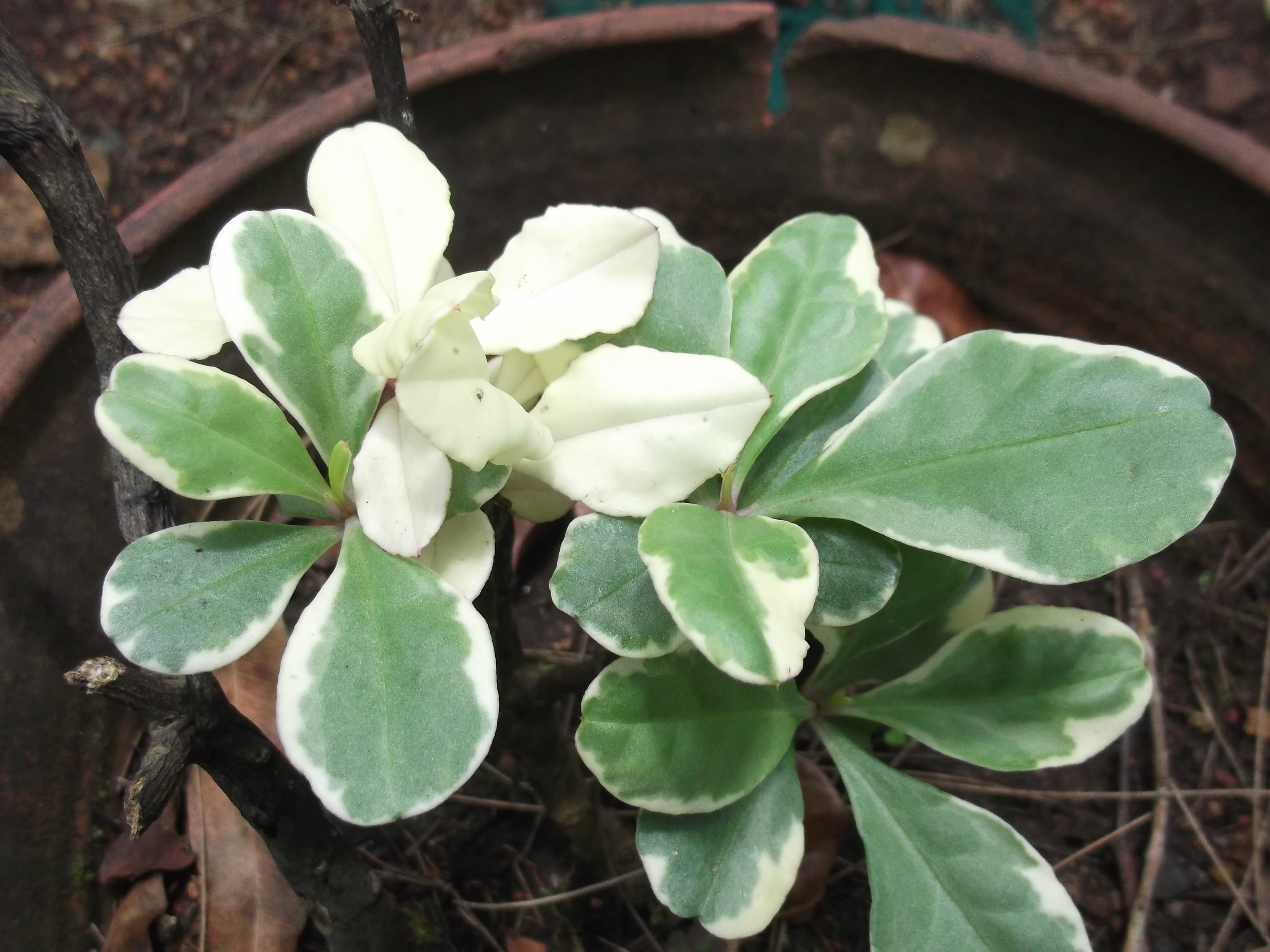 Succulent herb,leaves variegated,flowers pink.